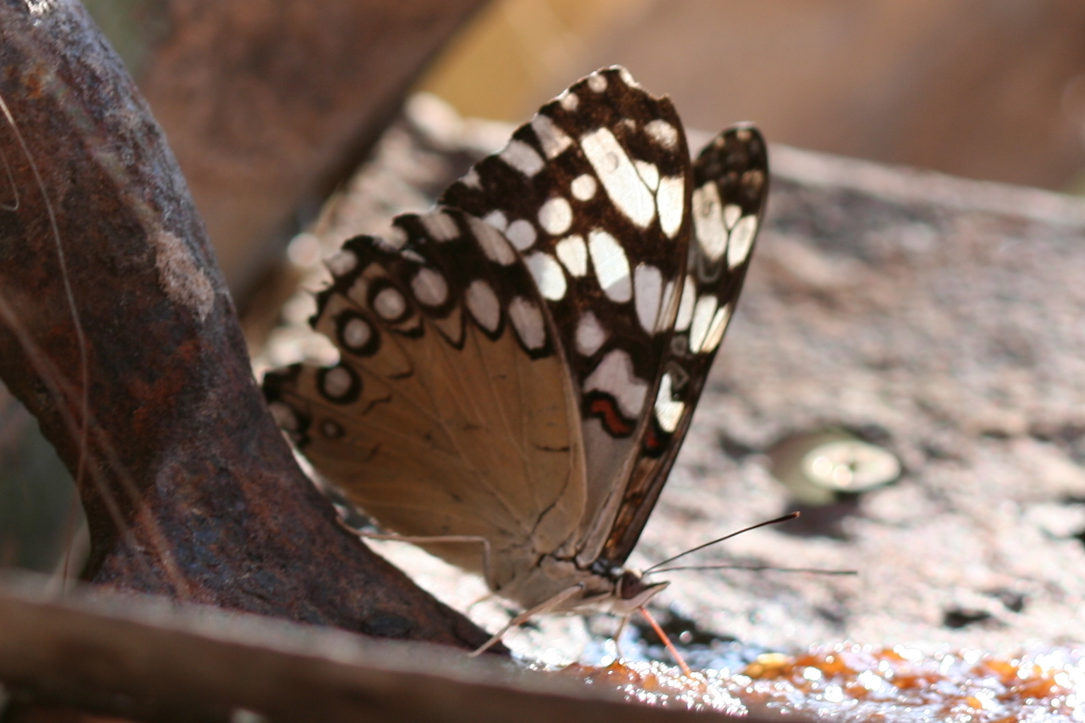 Hamadryas guatemalena Flickr description: "On bait (Josh's Diner) at Bentsen SP"